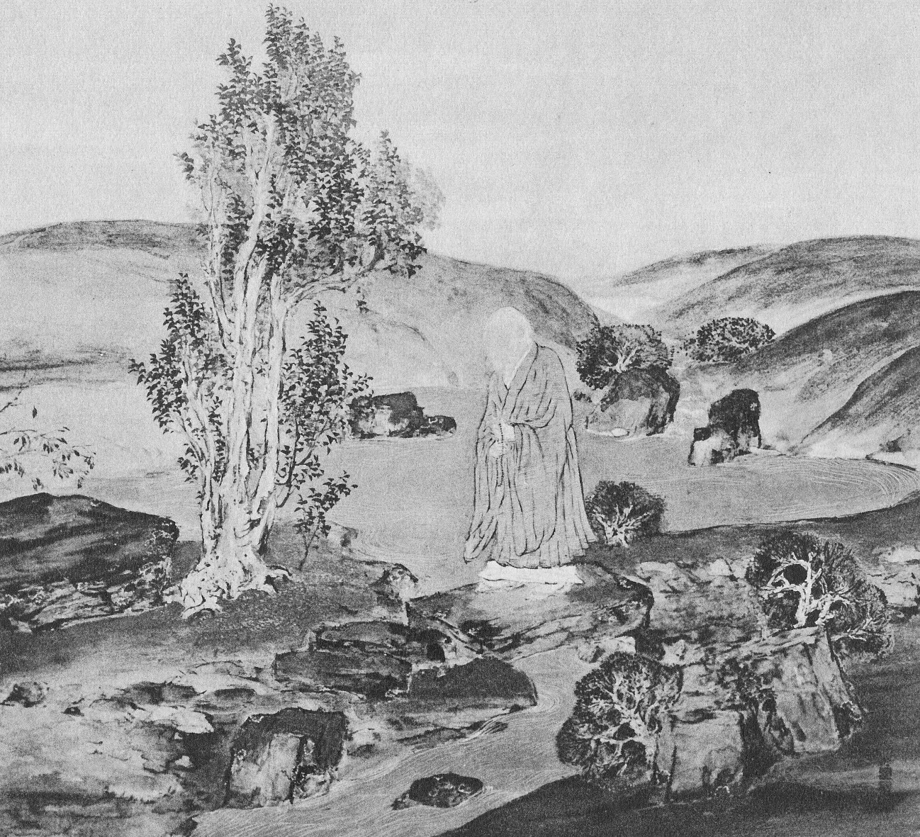 Paiting Abott of Rengeji